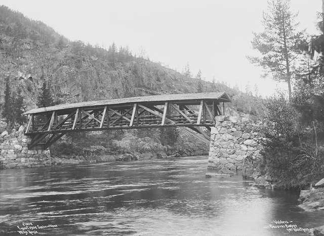 Old Fønhus Bridge crossing river Begna in Sør-Aurdal municipality, Oppland county, Norway